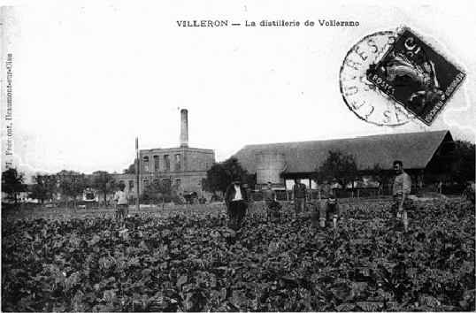 Sugar beet alcohol Distillery, Barn of Vaulerent, Villeron, former Seine-et-Oise, now in Val-d'Oise, France.